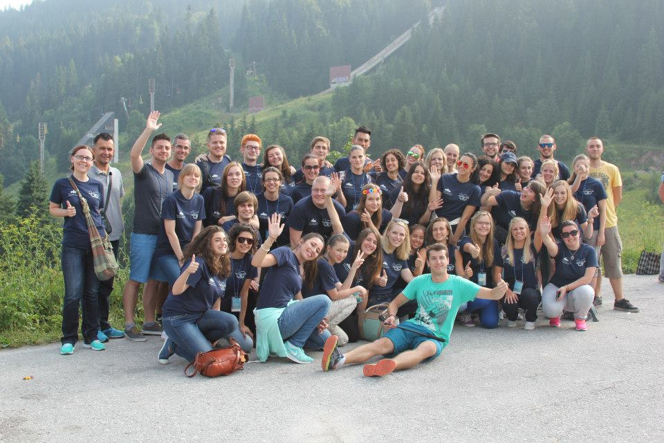 Igman mountain, Social program, SSLS, 2015